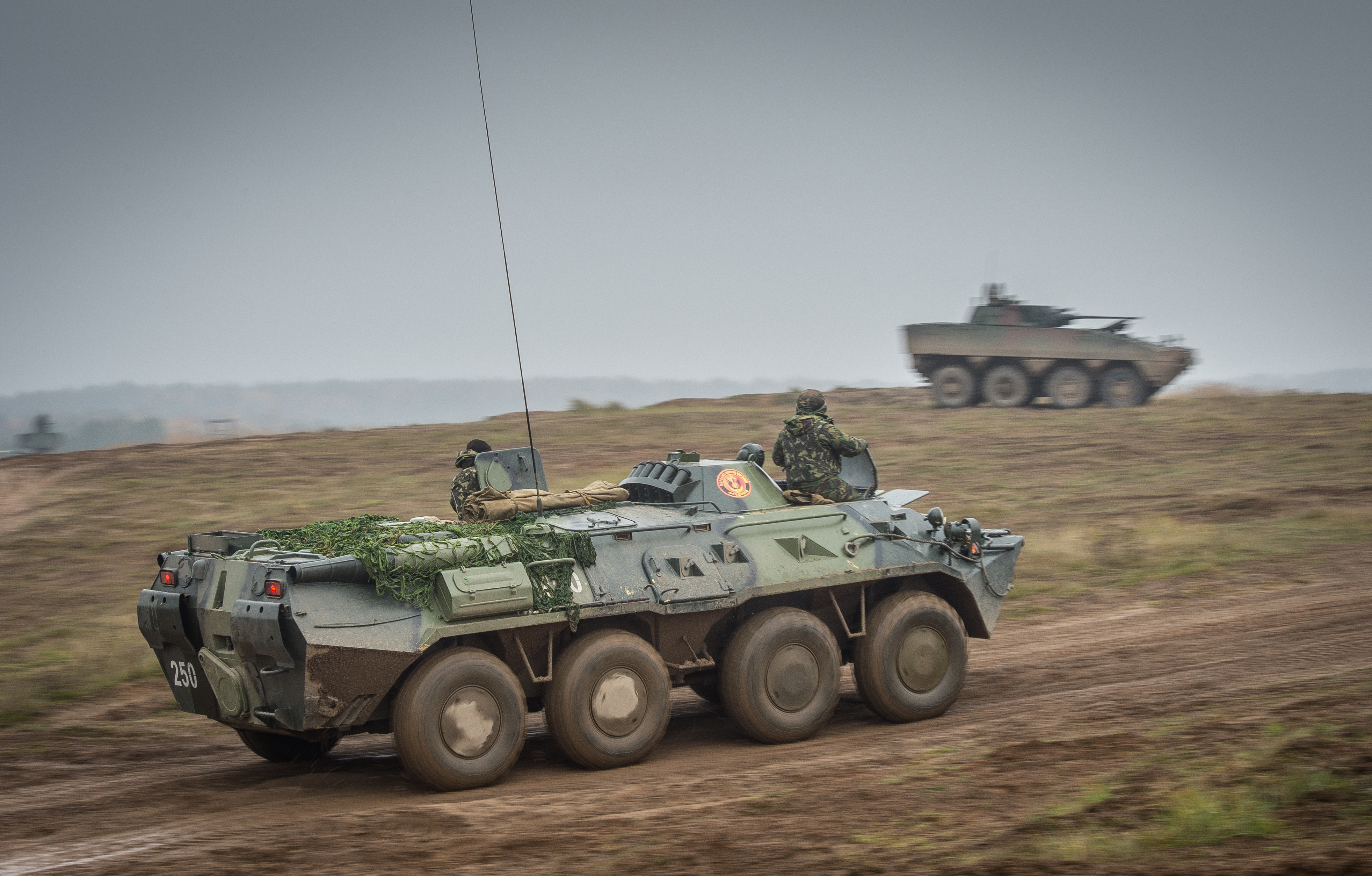 A Ukrainian BTR-80 Armoured Personnel Carrier deploys on to the battlefield during a live fire exercise on Exercise Steadfast Jazz at the Drawsko Pomorskie Training Area, Poland, on Nov. 6, 2013. Exercise Steadfast Jazz 2013 is taking place from 1-9 November in a number of Alliance nations including the Baltic States and Poland. The purpose of the exercise is to train and test the NATO Response Force, a highly ready and technologically advanced multinational force made up of land, air, maritime and special forces components that the Alliance can deploy quickly wherever needed. The Steadfast series of exercises are part of NATO’s efforts to maintain connected and interoperable forces at a high-level of readiness. (NATO photo/SSgt Ian Houlding GBR Army)